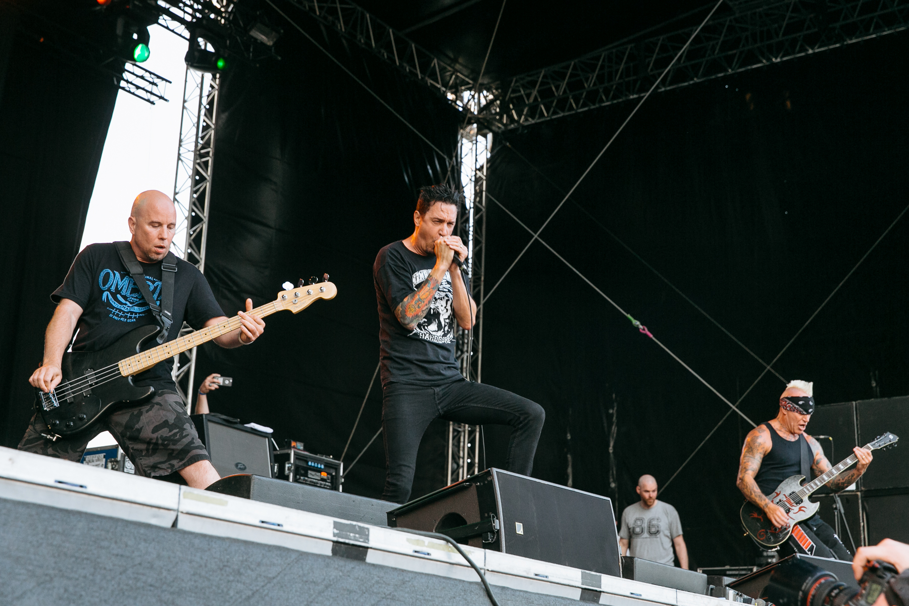 Sick Of It All at Vainstream 2015